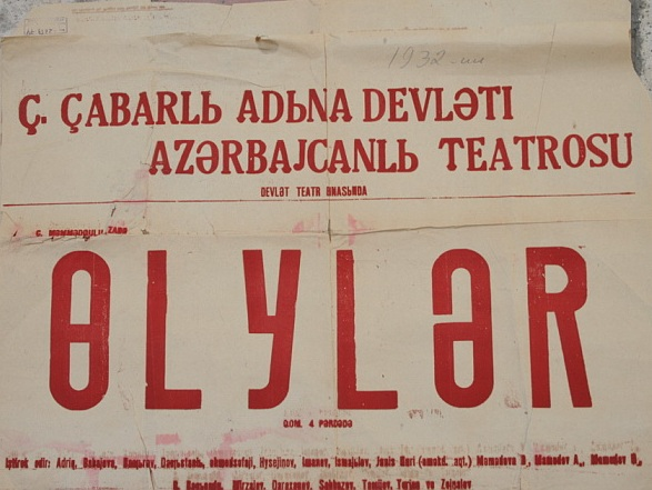 Poster of "Dead man" play in Yerevan State Azerbaijani Theatre named after Jabbar Jabbarly